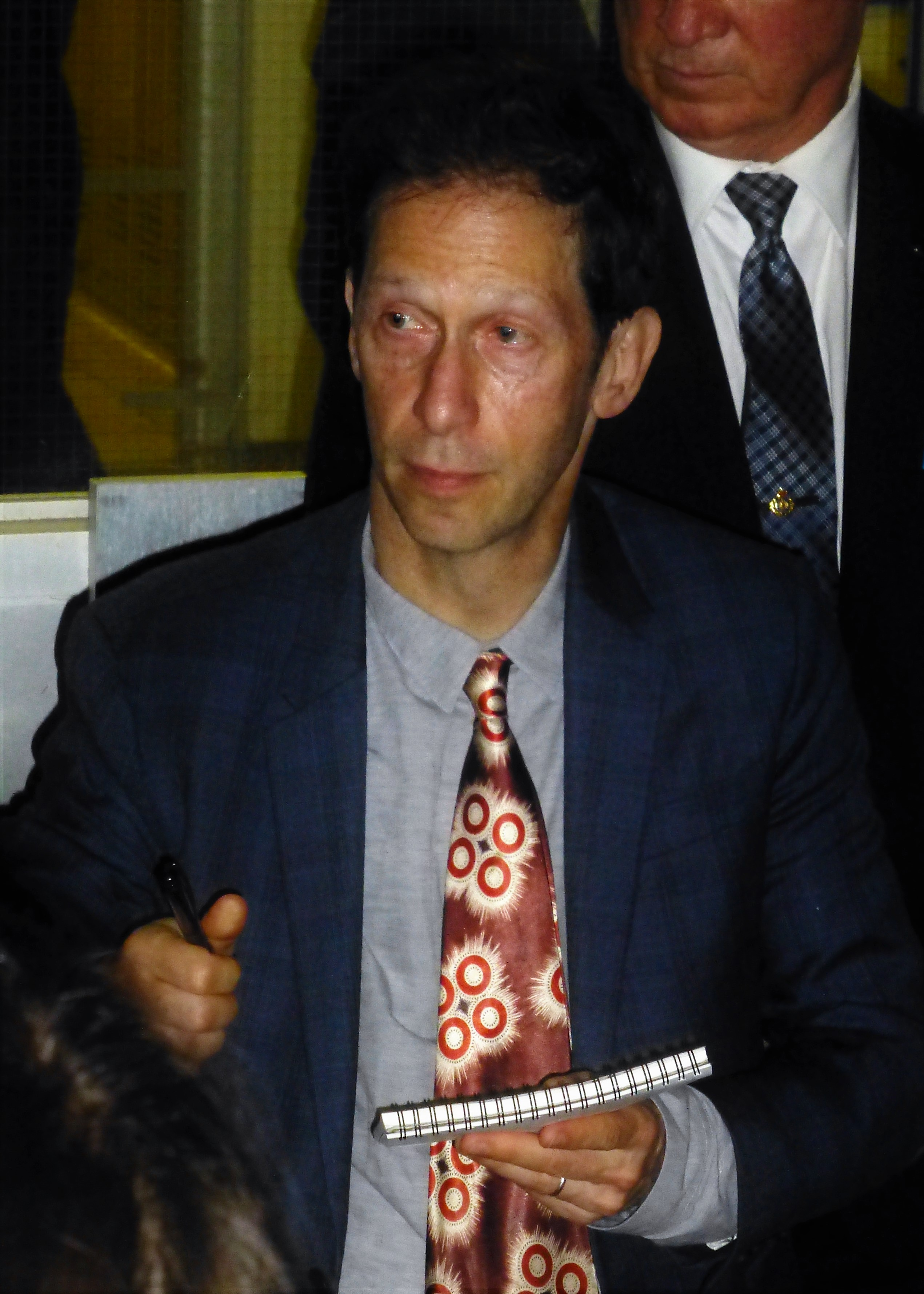 Tim Blake Nelson at the premiere of Colossal, 2016 Toronto Film Festival